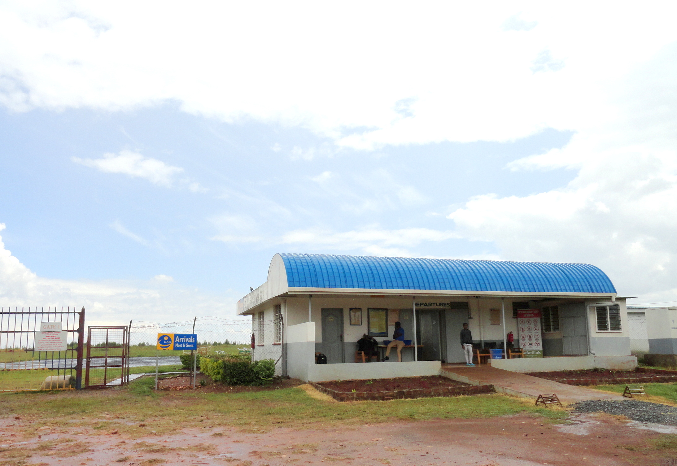 Kitale Airport terminal, November 2019